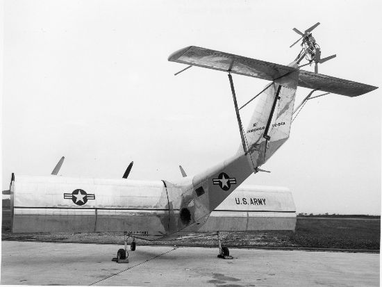 Fairchild VZ-5 experimental aircraft.